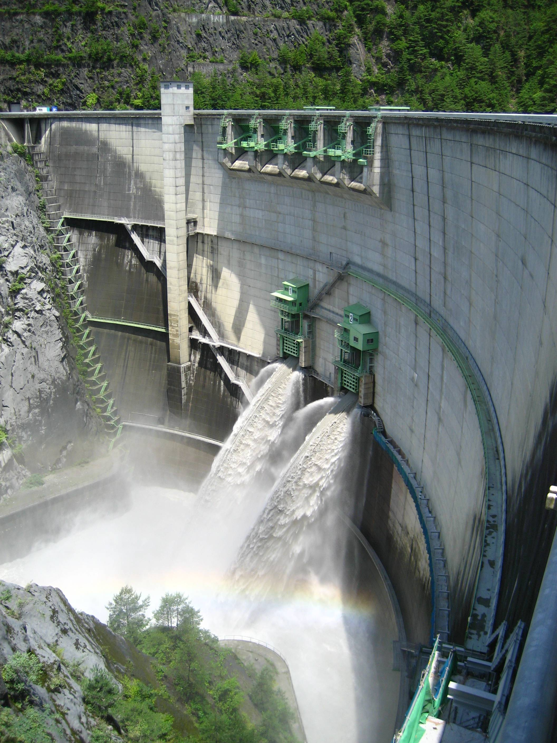 Koshibu Dam (小渋ダム) in between Matsukawa Town and Nakagawa village, Nagano prefecture, Japan. The dam is discharging water (about 70 m³/s) from two conduit gates.